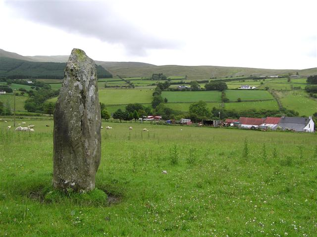 Standing stone at Aghalane. Looking east.